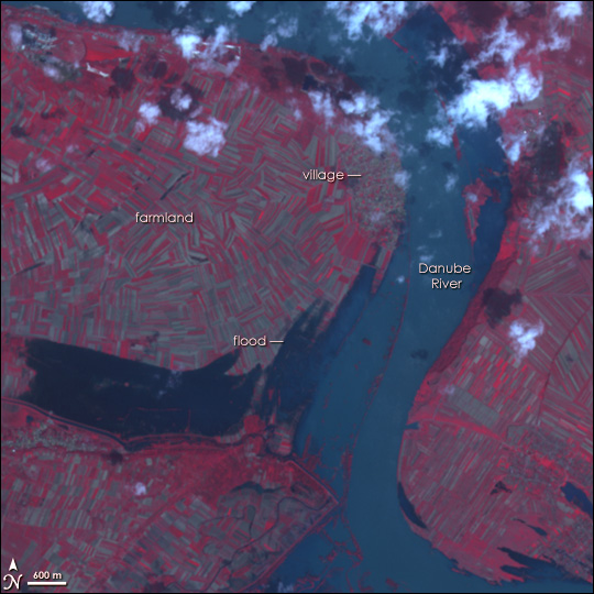 Satellite photo of the Danube flooding fields in Serbia during the w:2006 European floods.